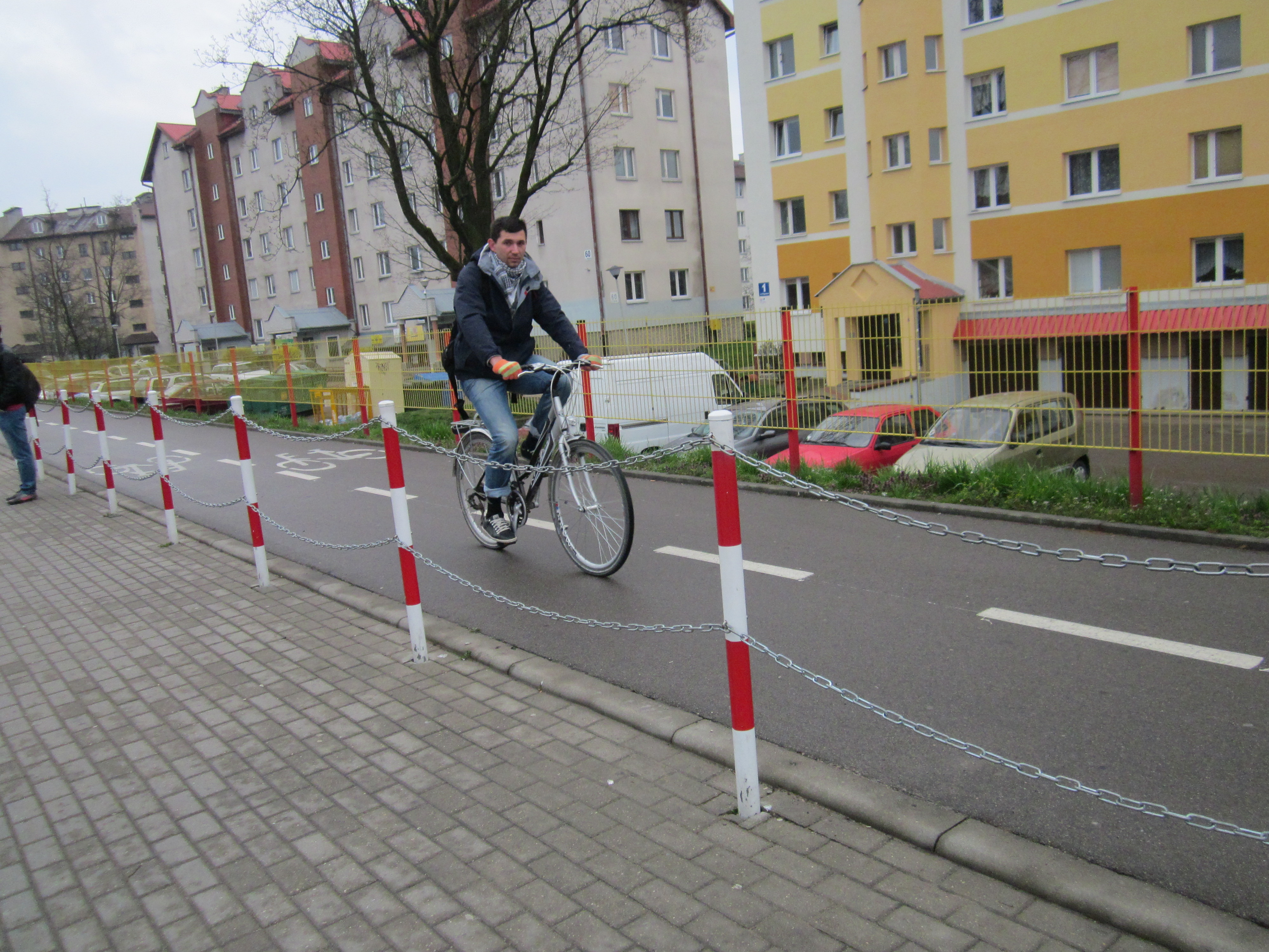 Pedestrian fences, cycle lanes in Białystok, Wiejska street